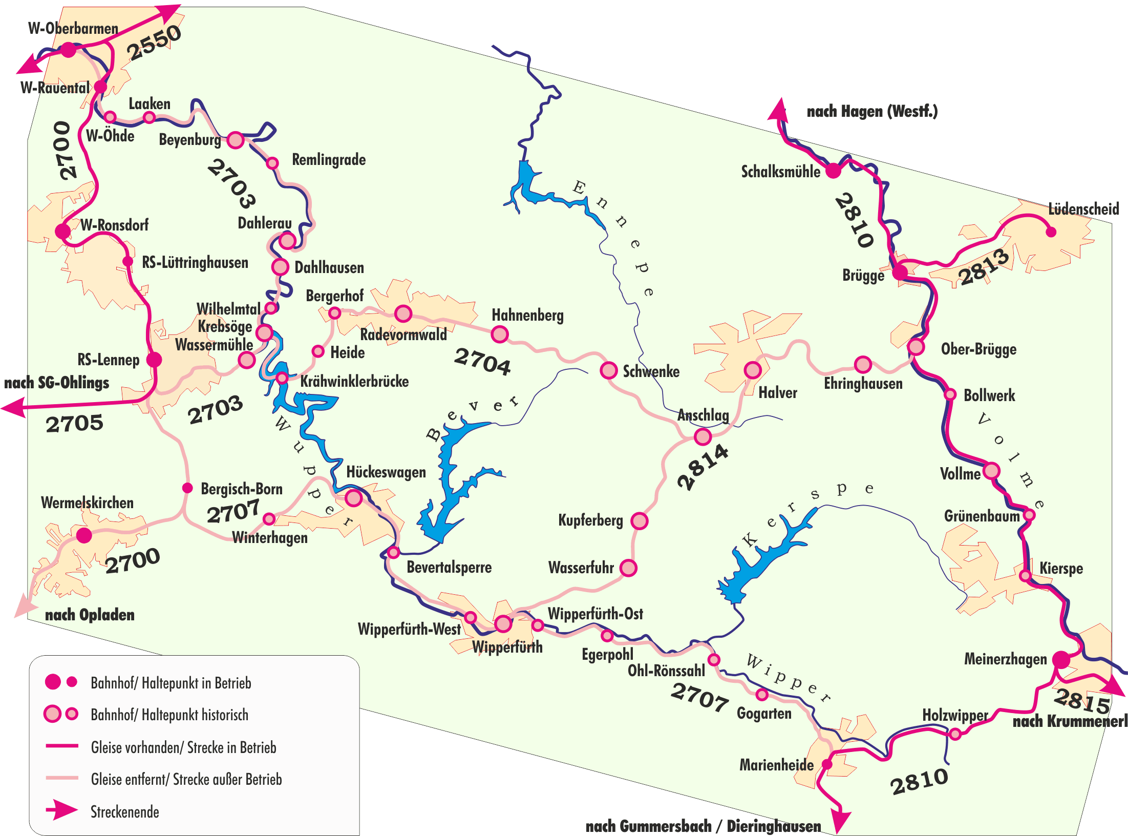 map railroad trails in "Oberbergische Land", Germany